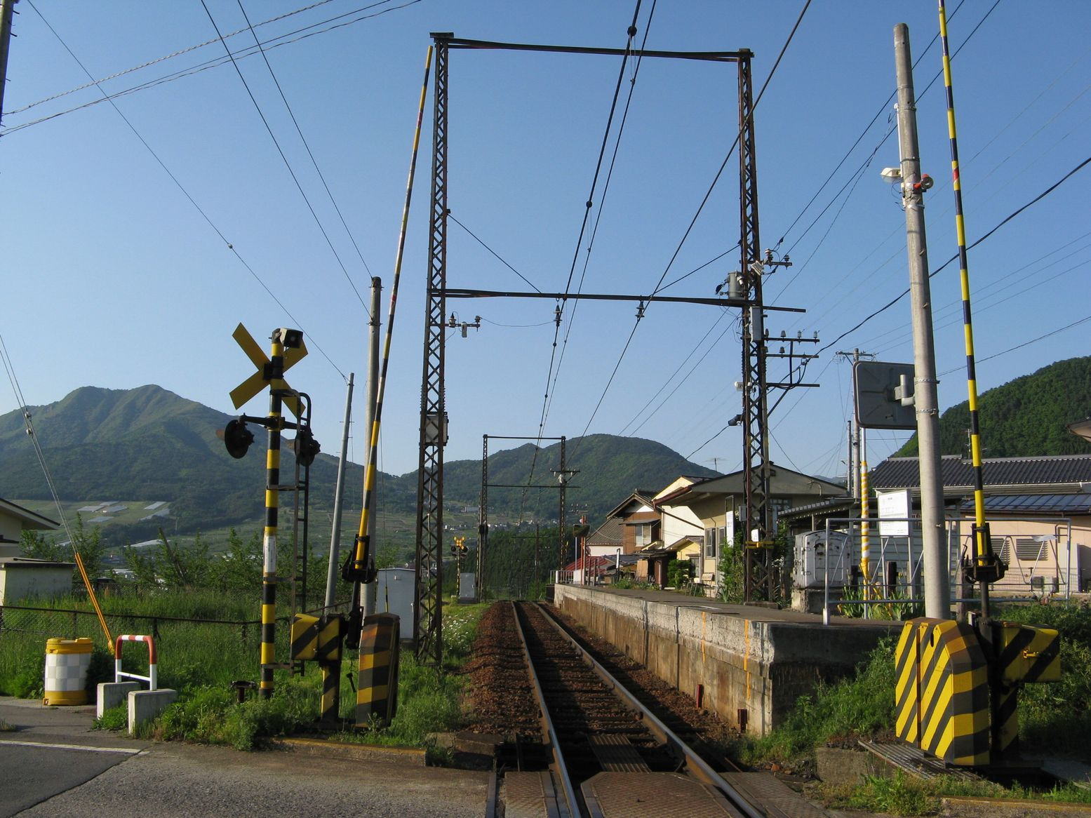 Kamijo Station in Yamanouchi, Nagano Prefecture, Japan